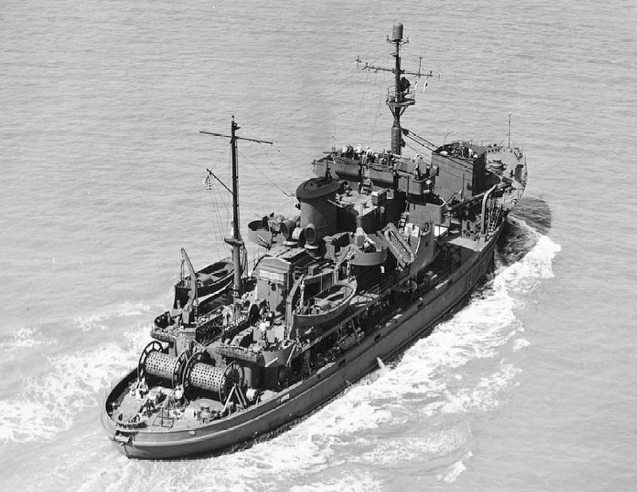 16 March 1945 Near Charleston Navy Yard, SC after conversion National Archives photo 19-N-79427